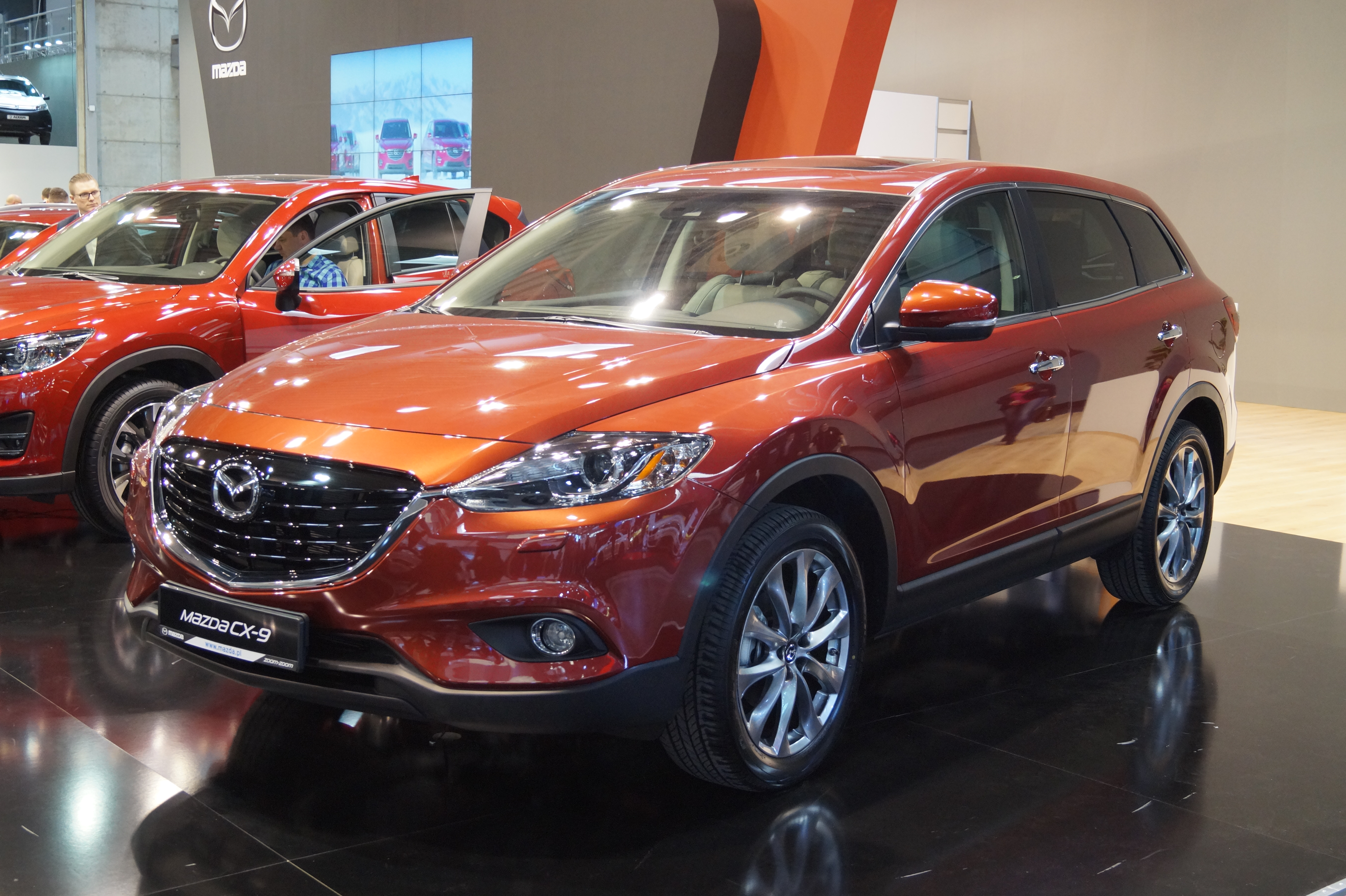 The making of this document was supported by Wikimedia Polska Association, within Wikigrant no. WG 2015-19. English | polski | +/− Mazda CX-9 na Motor Show Poznań 2015